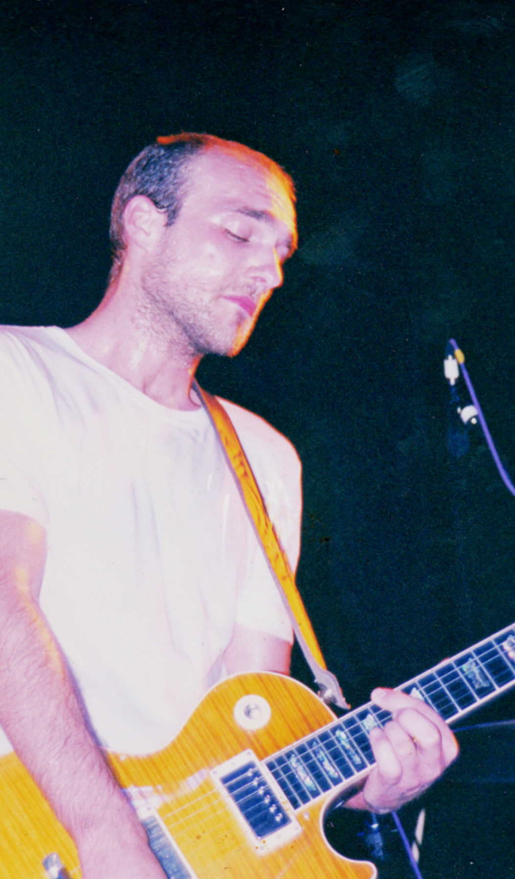 Jeremy Enigk, August 1, 2000 live on stage